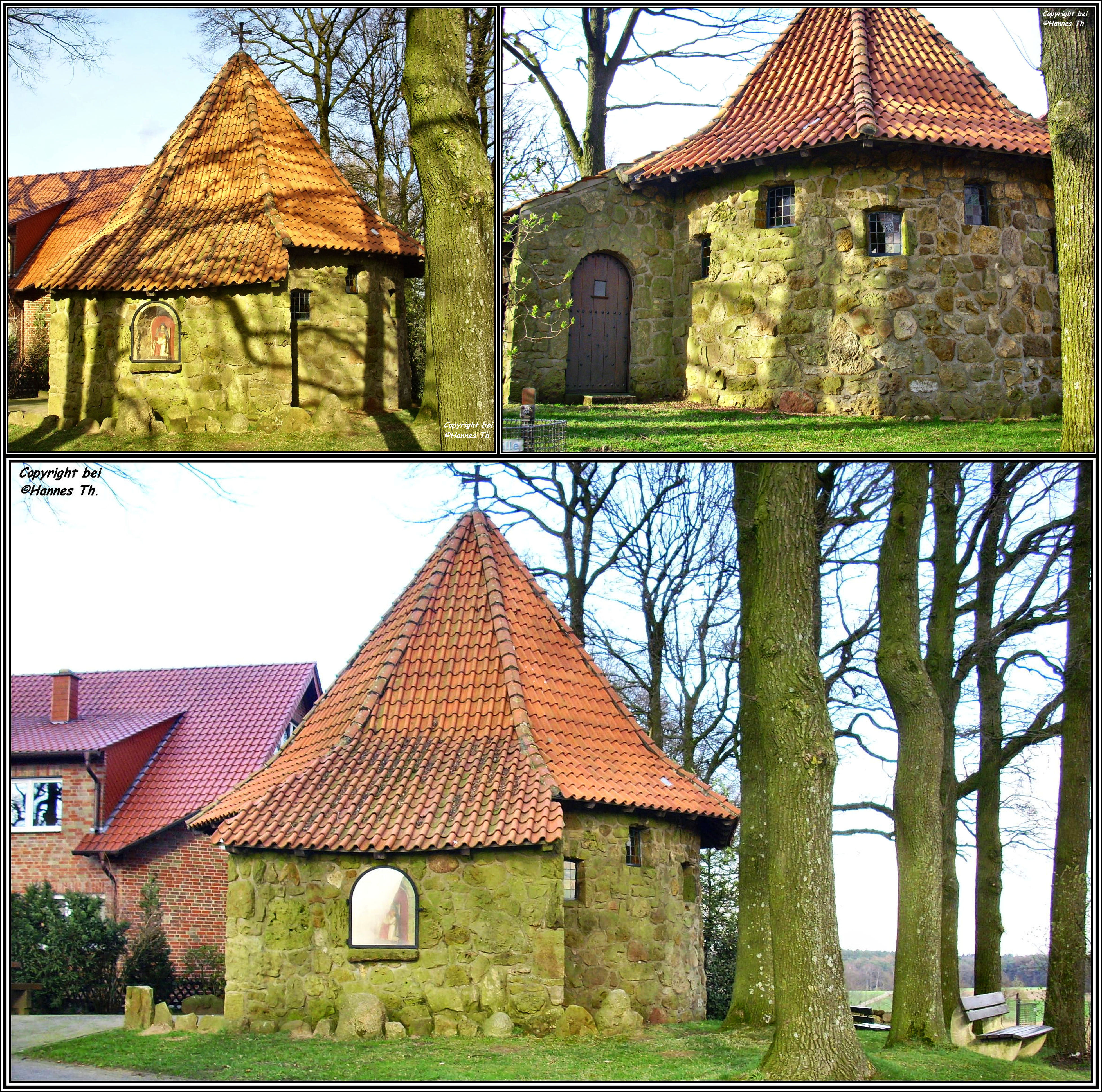 Tannenberg chapel